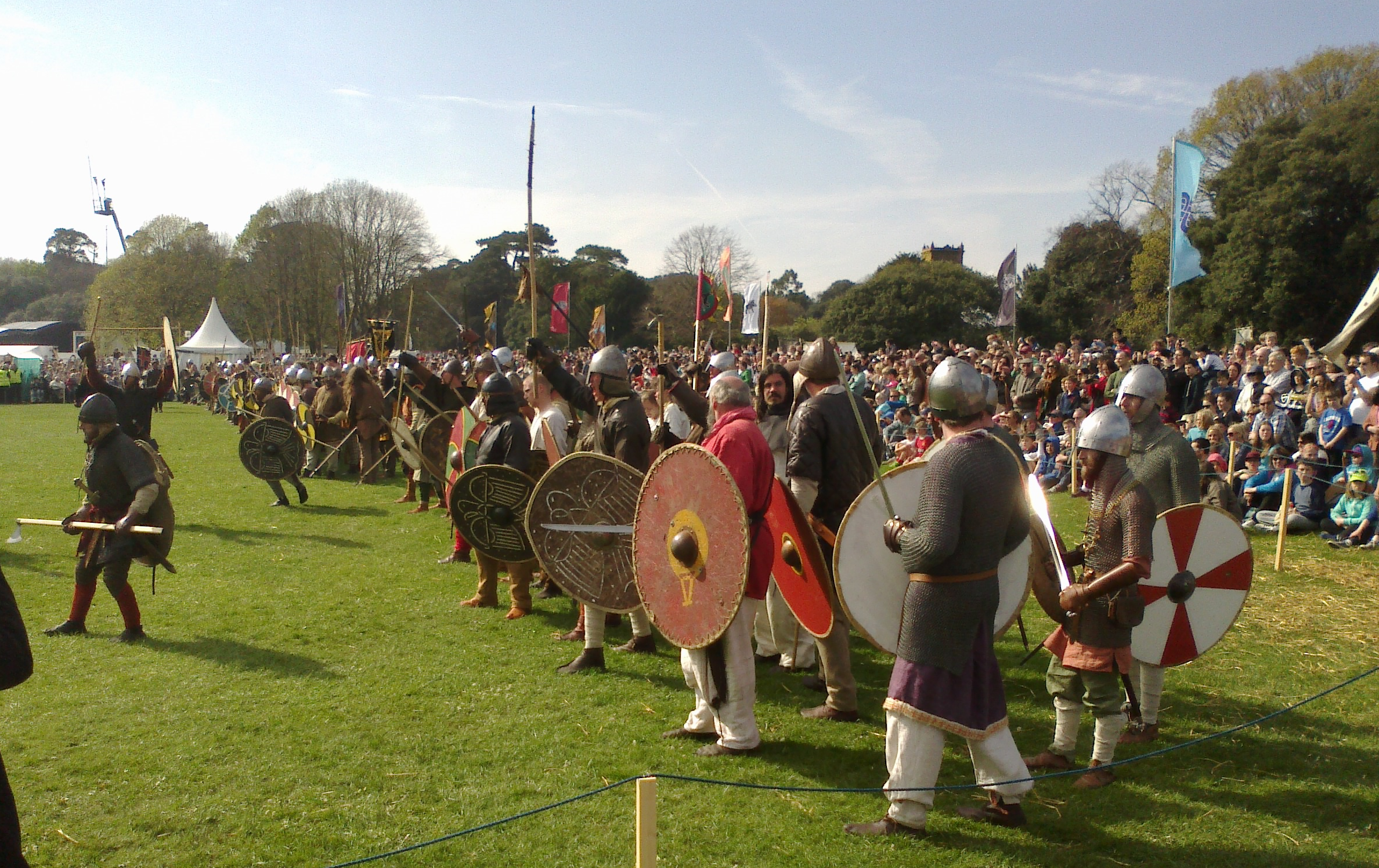 Viking re-enactors at the Battle of Clontarf millennium commemoration, Saint Anne's Park, Dublin, April 19th 2014.